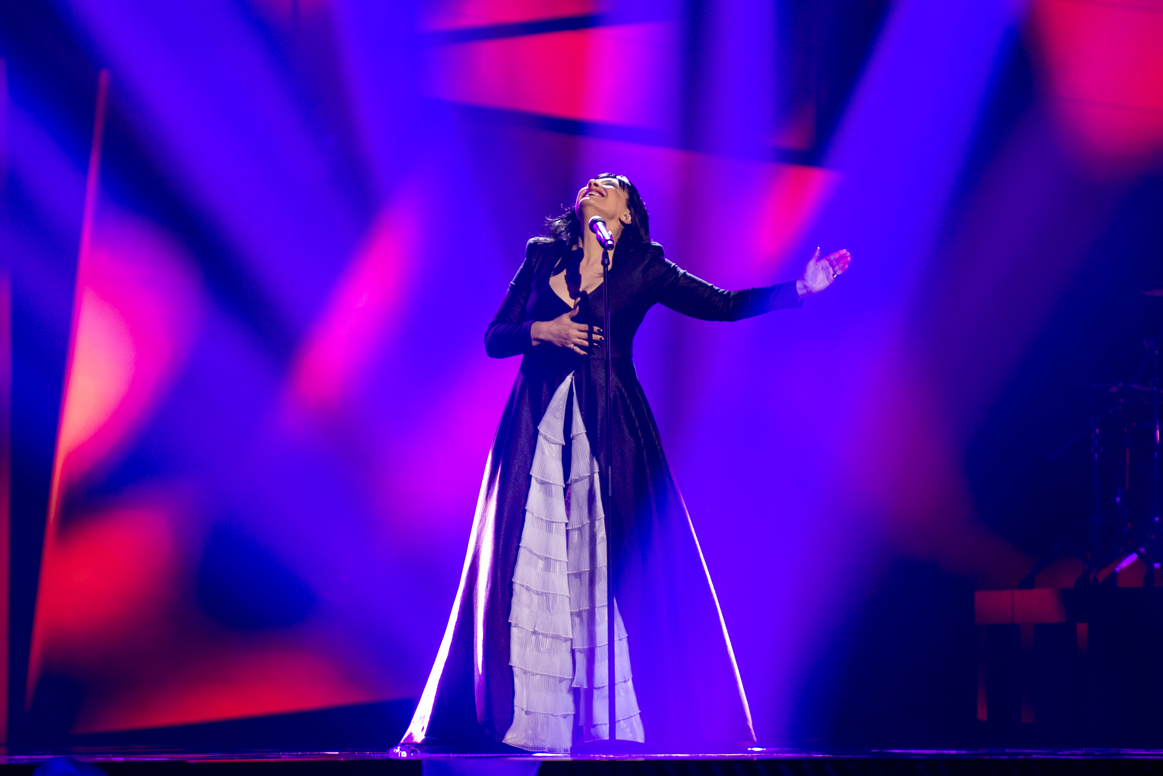 Kaliopi representing North Macedonia with the song "Dona" during a rehearsal before the second semi final of the Eurovision Song Contest 2016 in Stockholm. (Help translate this text)